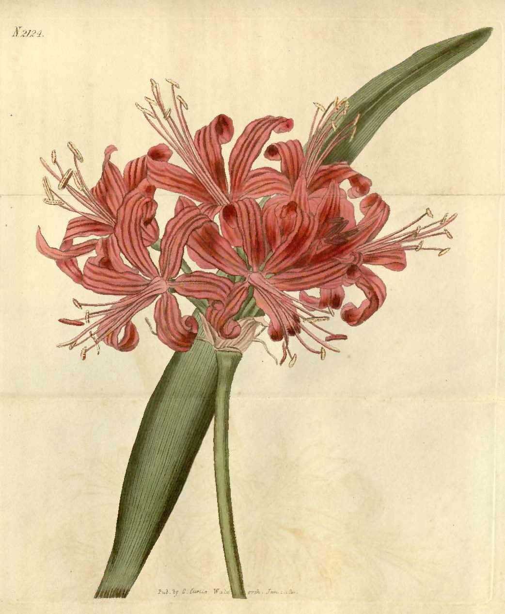 Nerine sarniensis